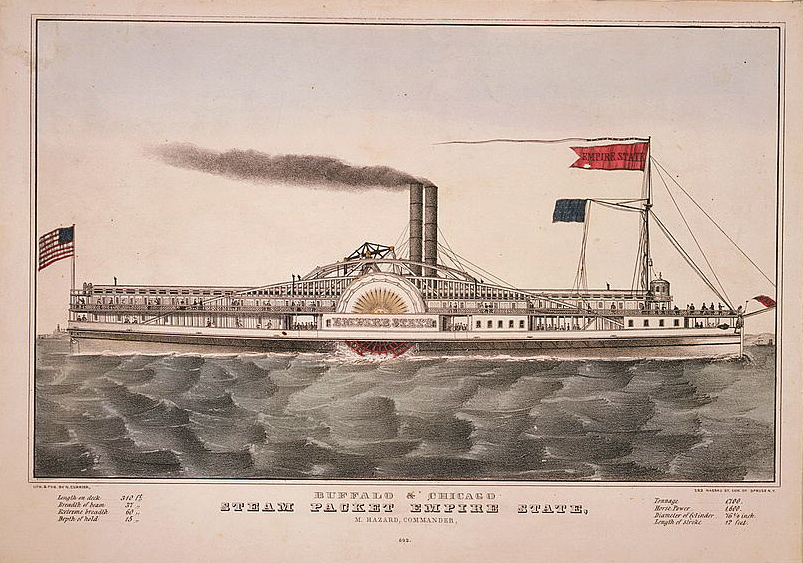 Empire State, Great Lakes steamboat, as depicted in Currier and Ives lithograph